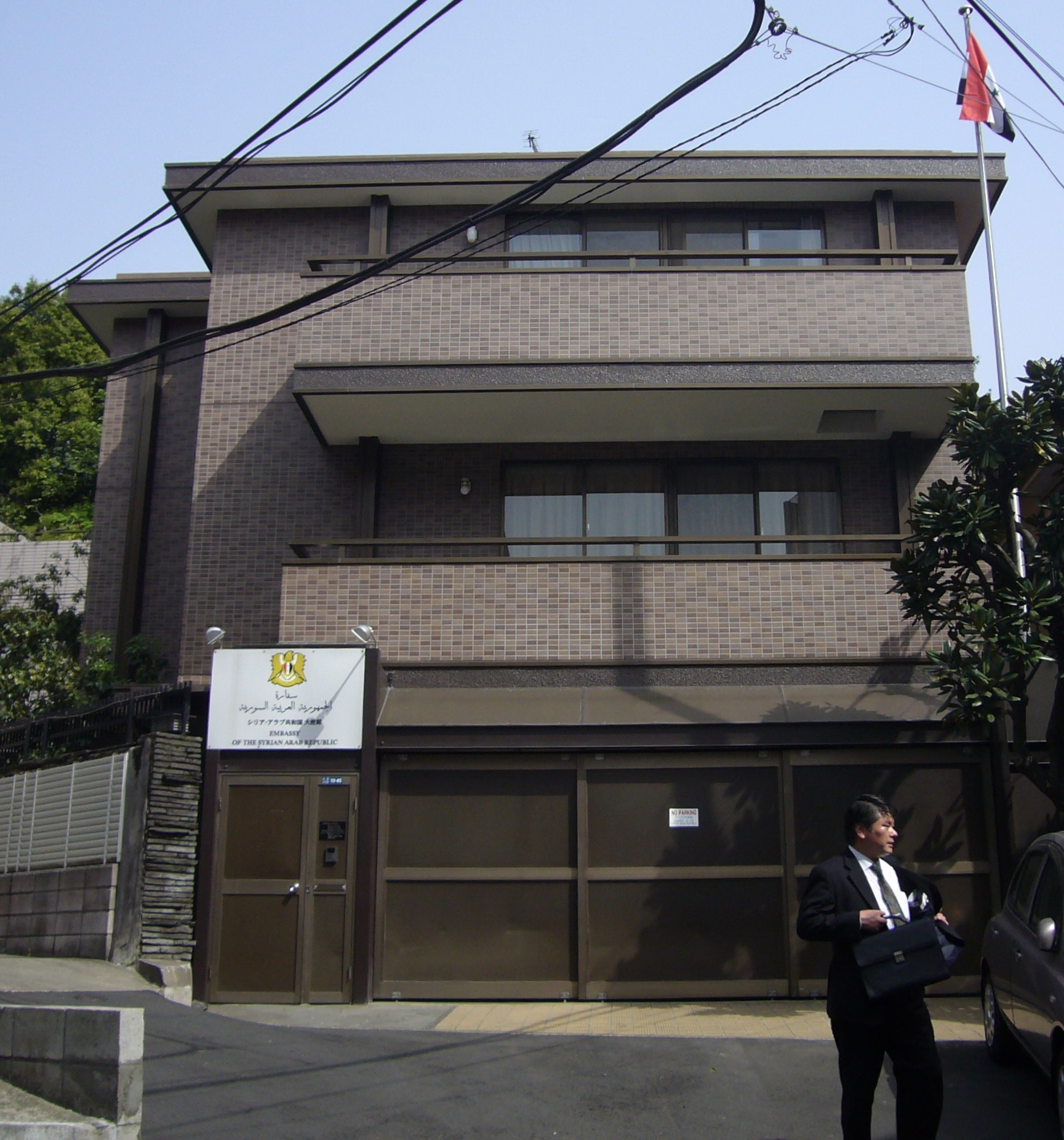 Embassy of Syria - Tokyo, Japan